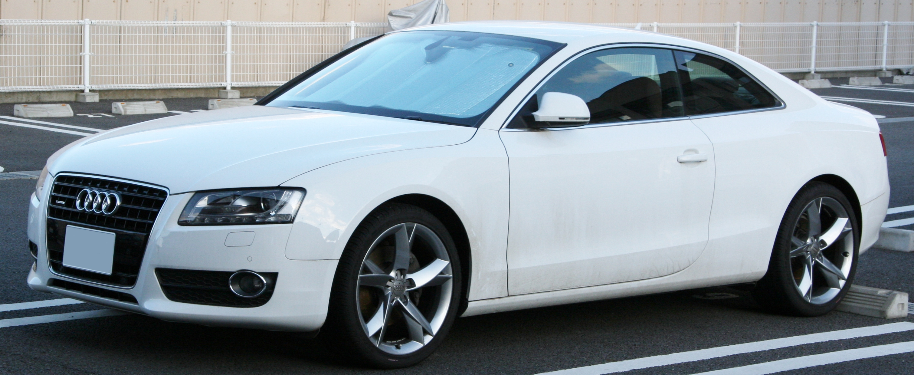 Audi A5